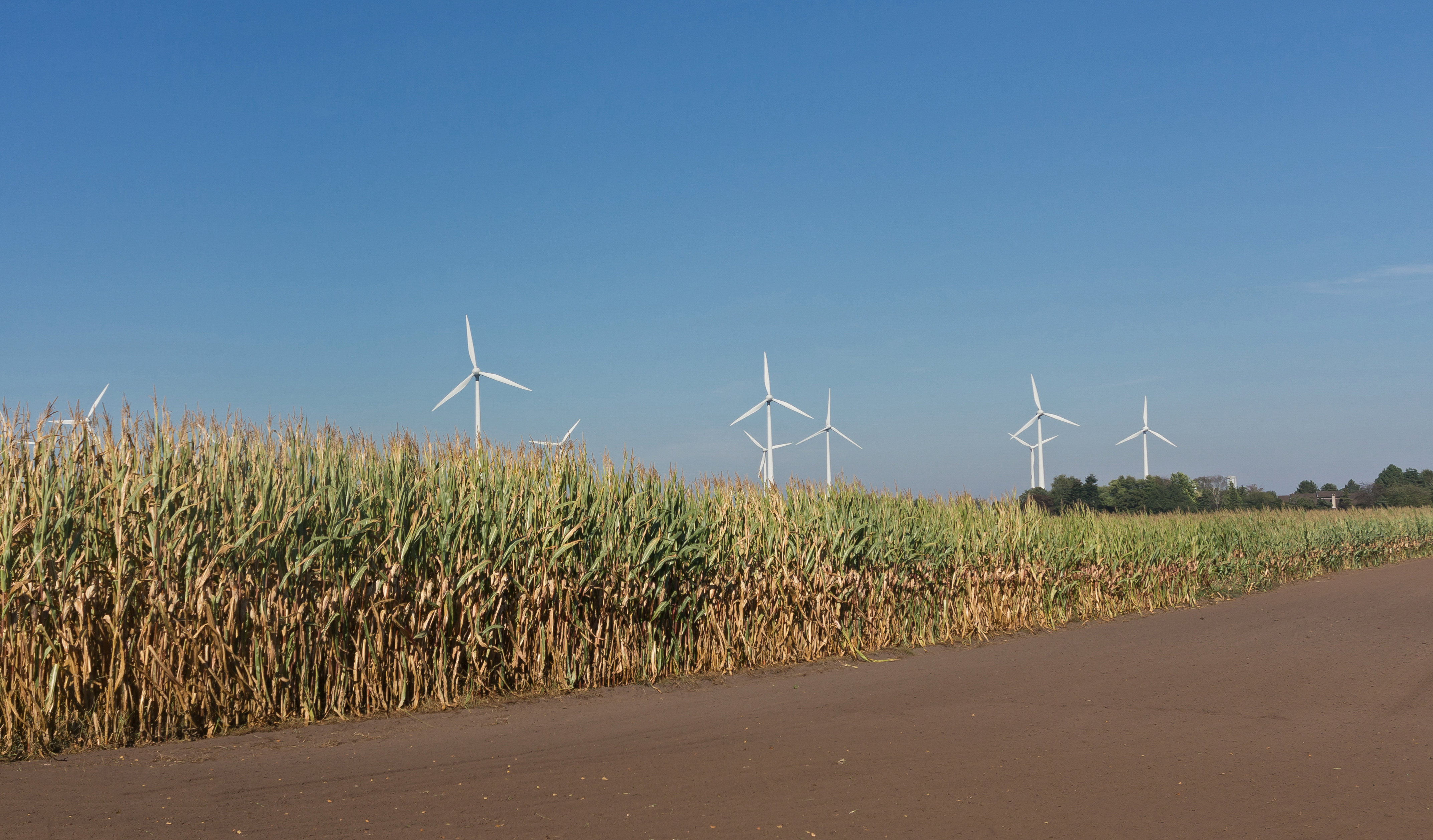 between Höhenkorben and Nordhorn, maize panorama with modern windmills from Schievink Strasse